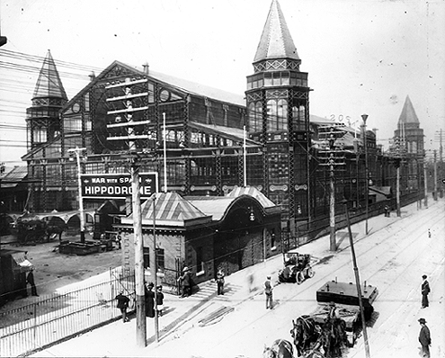 A photograph by Frank E. Bingaman depicting the Winter Garden at Exposition Hall. The date of the postcard circa 1909